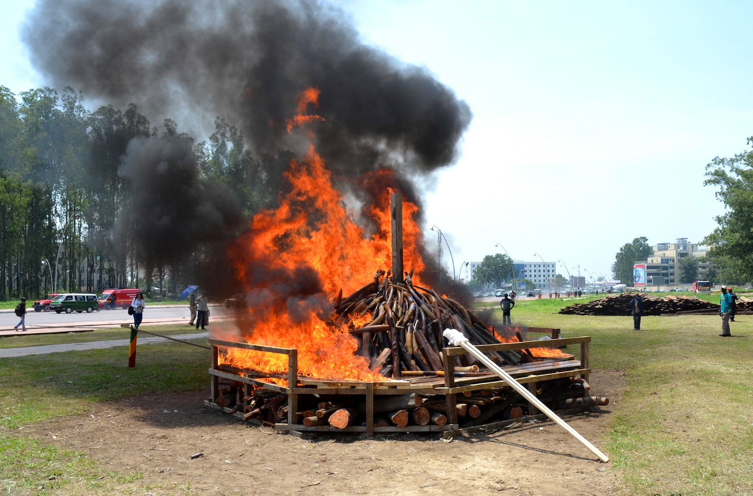 Republika Kongo spálila v Brazzaville 4,6 tuny slonoviny.